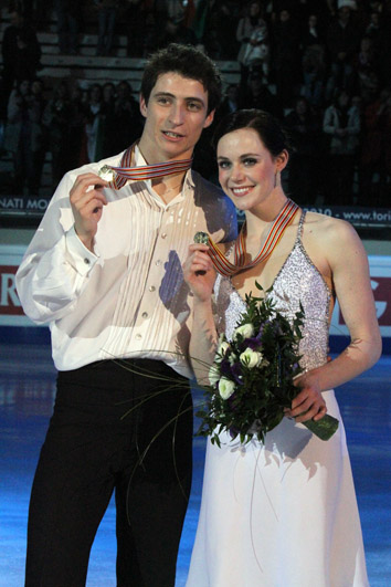 Tessa Virtue and Scott Moir at the 2010 World Figure Skating Championships.